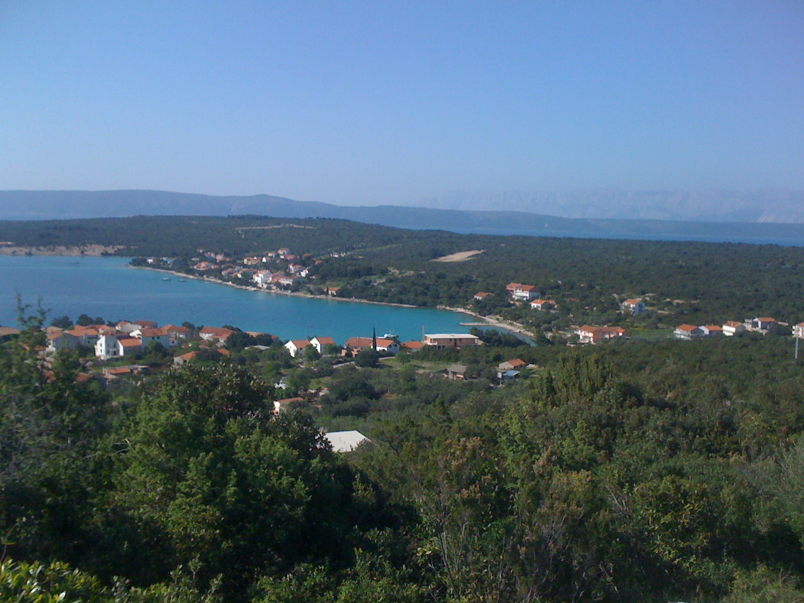 Panorama of Lovište